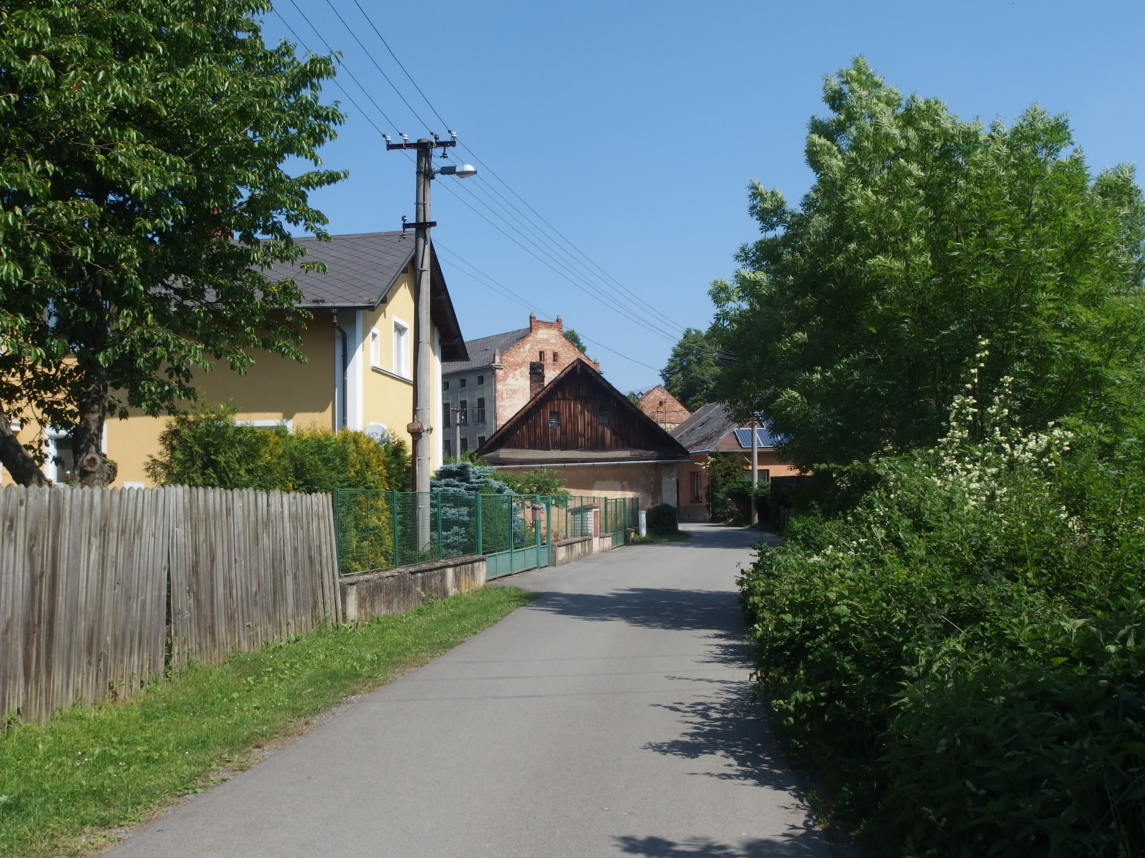 Březová nad Svitavou, Svitavy District, Czech Republic, part Zářečí.